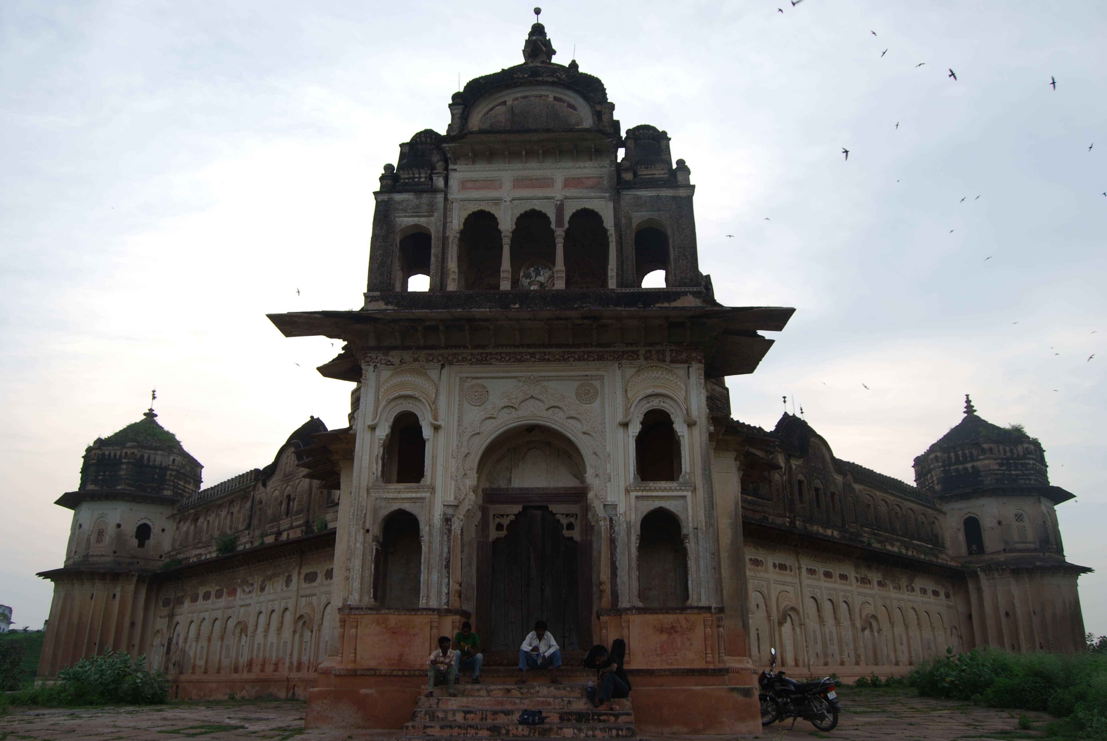 The temple is well known for its unique architecture and decorative wall paintings in its interior walls.